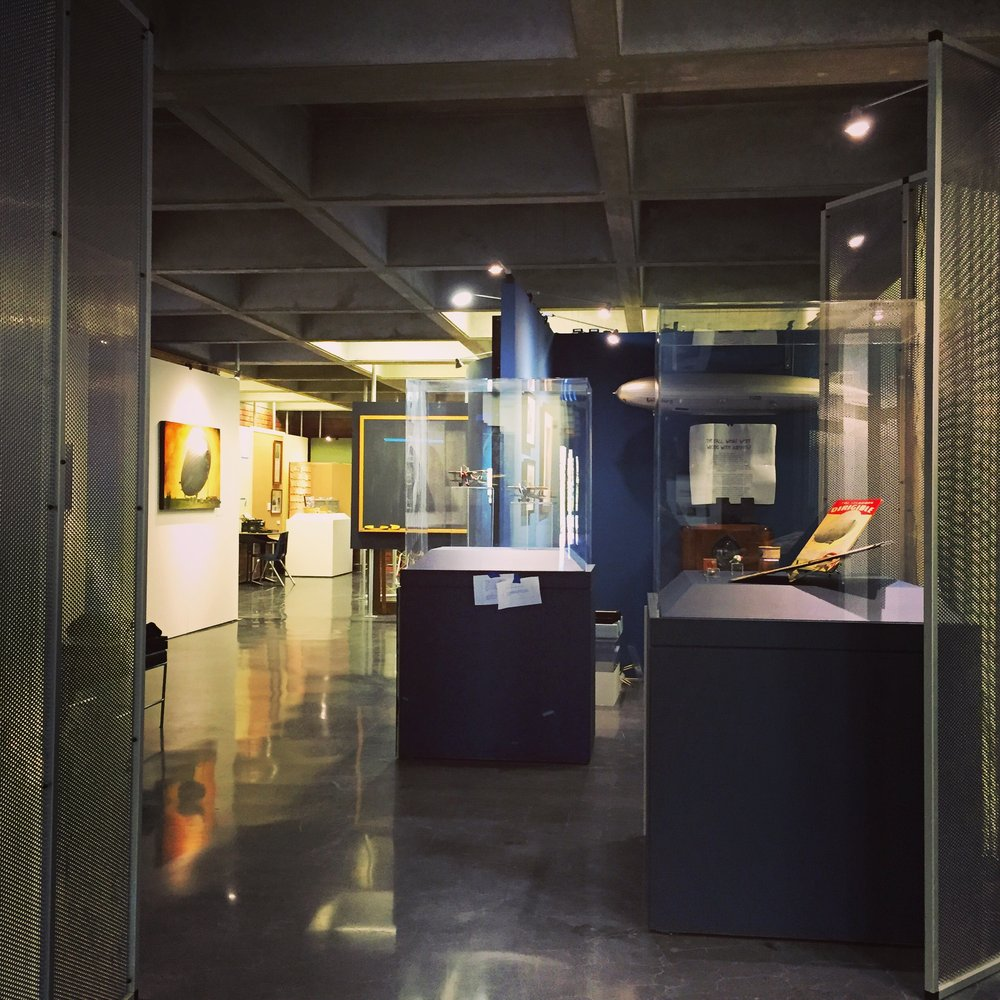 New Museum Los Gatos Gallery